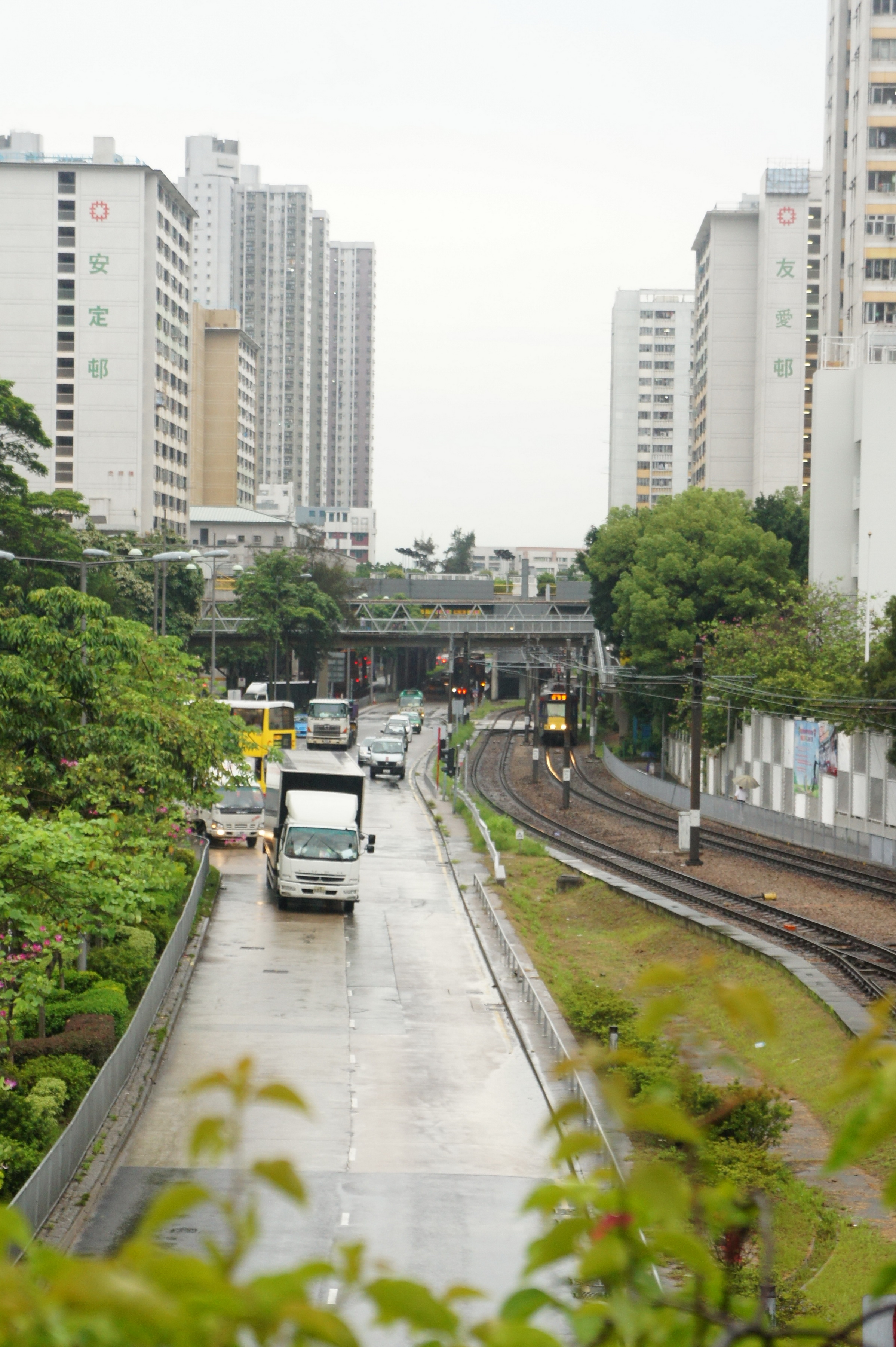 Tuen Mun Heung Sze Wui Road, Tuen Mun, New Territories, Hong Kong.